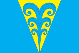 Flag of Fontalovskoe rural settlement, Krasnodar Territory, Russia